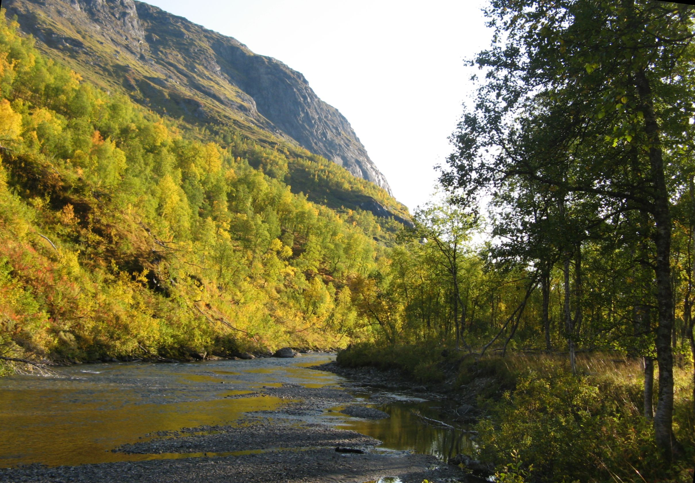 Vassdalen, mountain Storebalak to the left. Near the site of the 1986 avalanche accident.